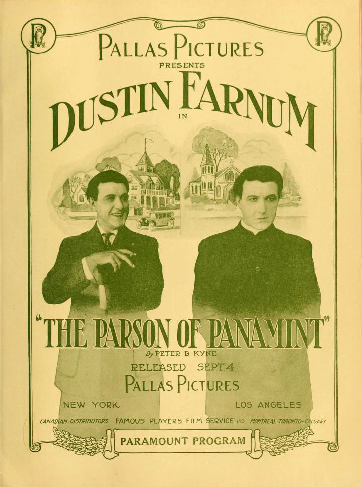 Advertisement in Moving Picture World for the American western film The Parson of Panamint (1916) with Dustin Farnum.